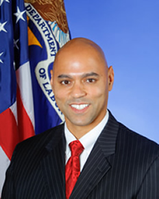 Ray Jefferson